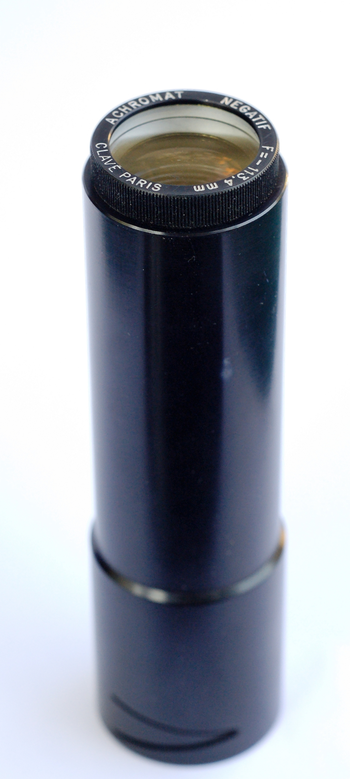 113.4 mm Clavé Barlow lens.